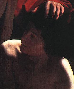 "Sacrifice of Isaac" by Caravaggio (1571-1610), detail. From Web Gallery of Art. Web Gallery of Art has agreed toe of images on Wikipedia. Artist has been dead over 100 years.